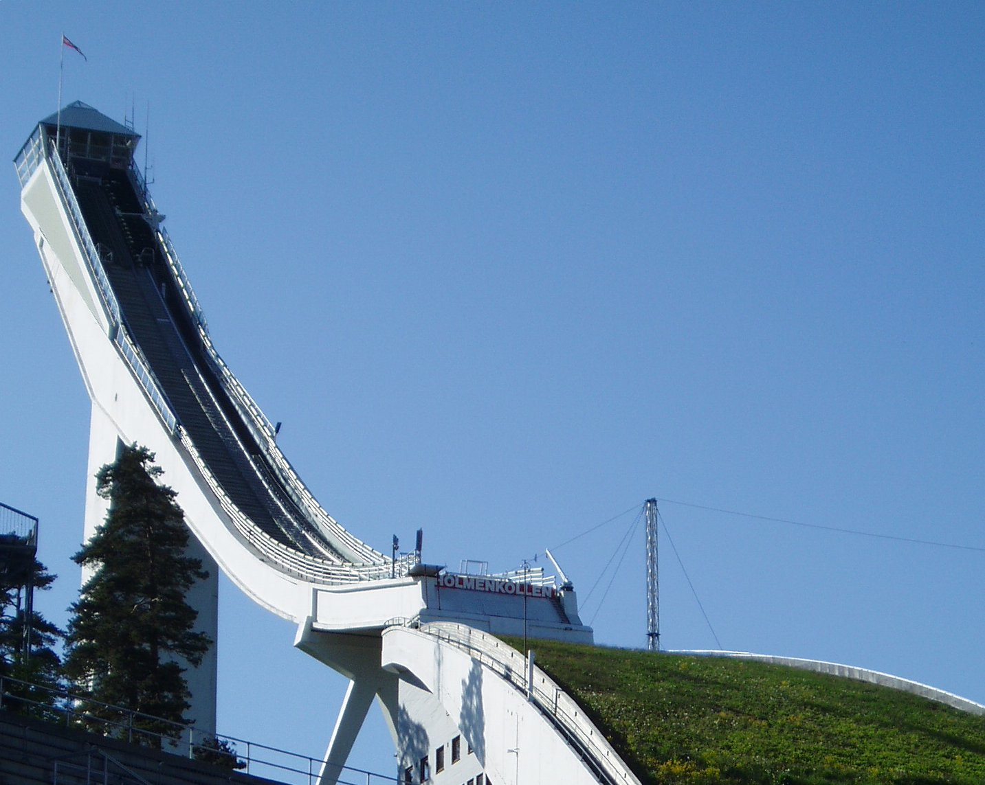 The ski jumping tower in Holmenkollen. Photo by JohnM 20:11, 9 June 2006 (UTC)